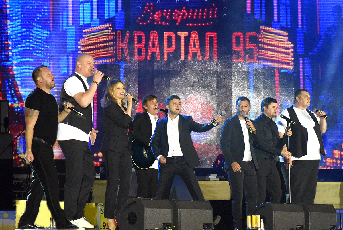 KVARTAL 95 Vadim Chuprina